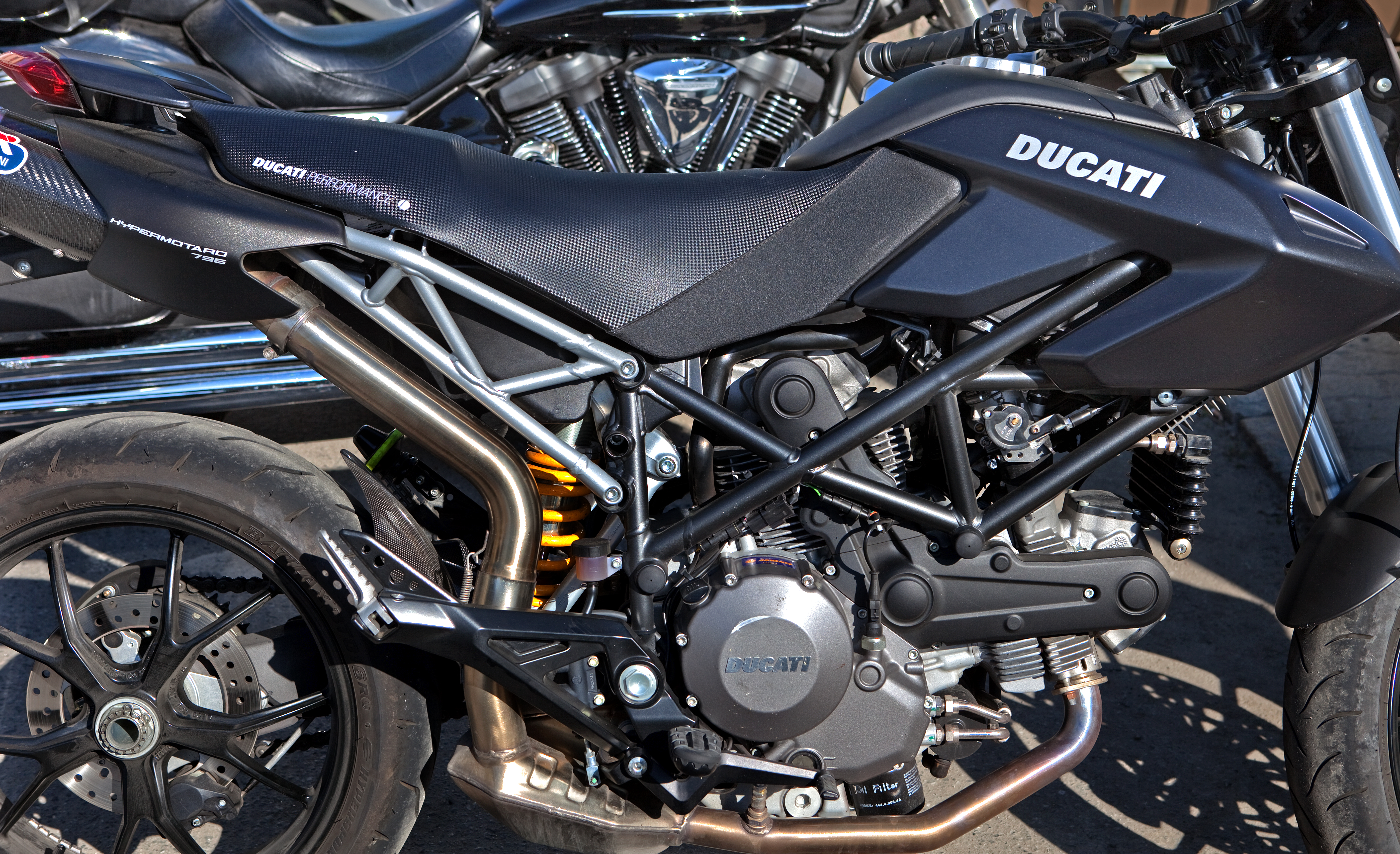 Ducati motorcycle engine. Photo Vaxholm 2010